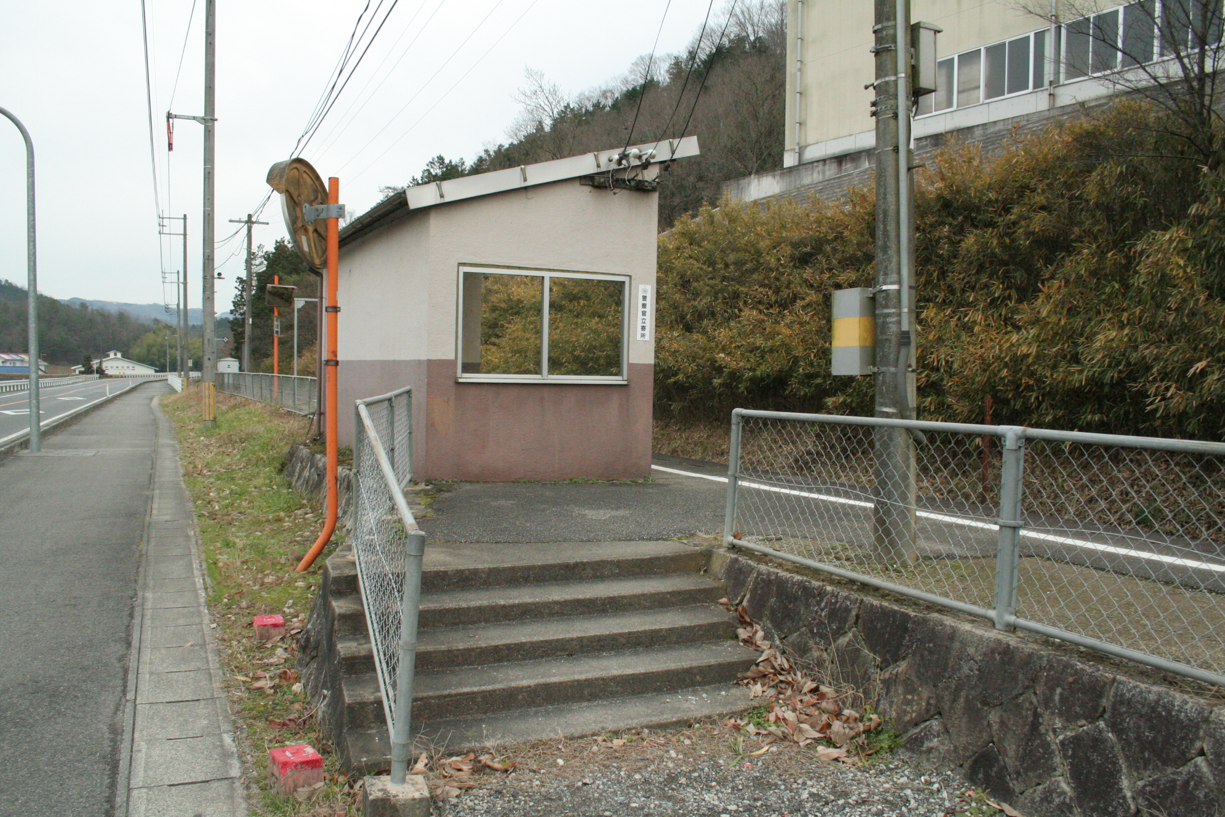 Narahara station entrance.